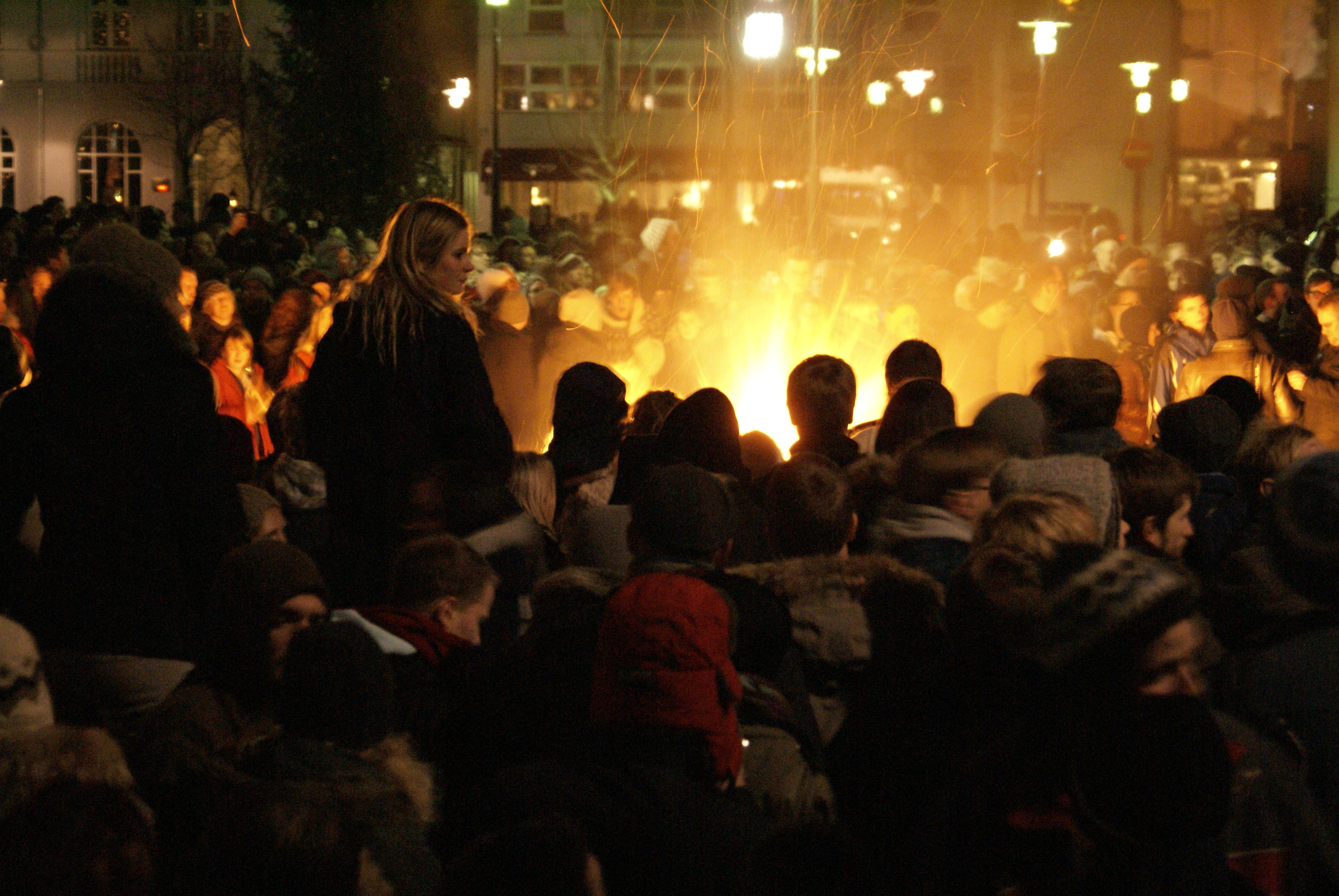 Week 15 2009-01-20. Protesters by Althingishus the House of Parliament.